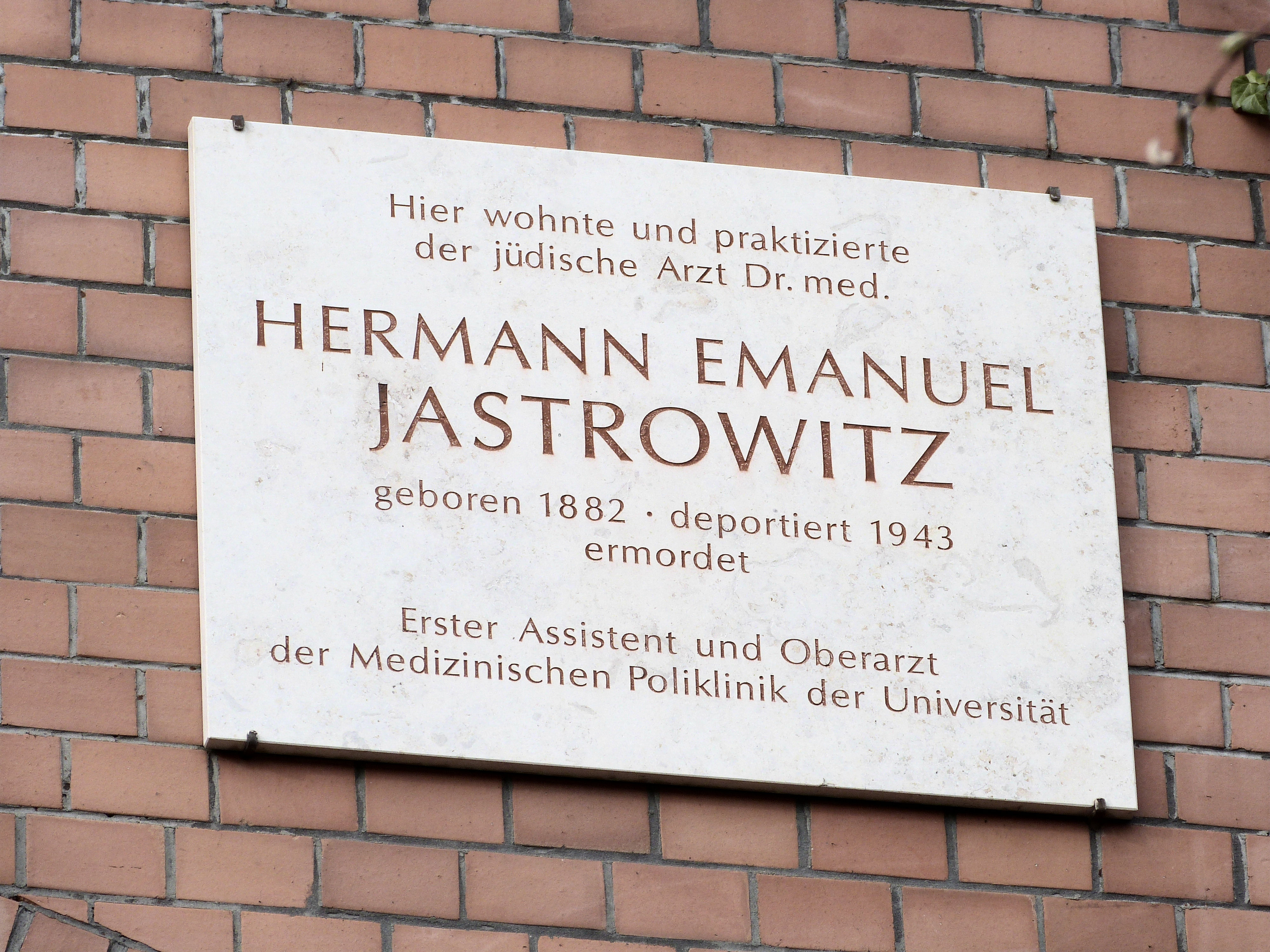 Plaque to memory for the jewish doctor Hermann Emanuel Jastrowitz, Händelstrasse No. 26, Halle (Saale)